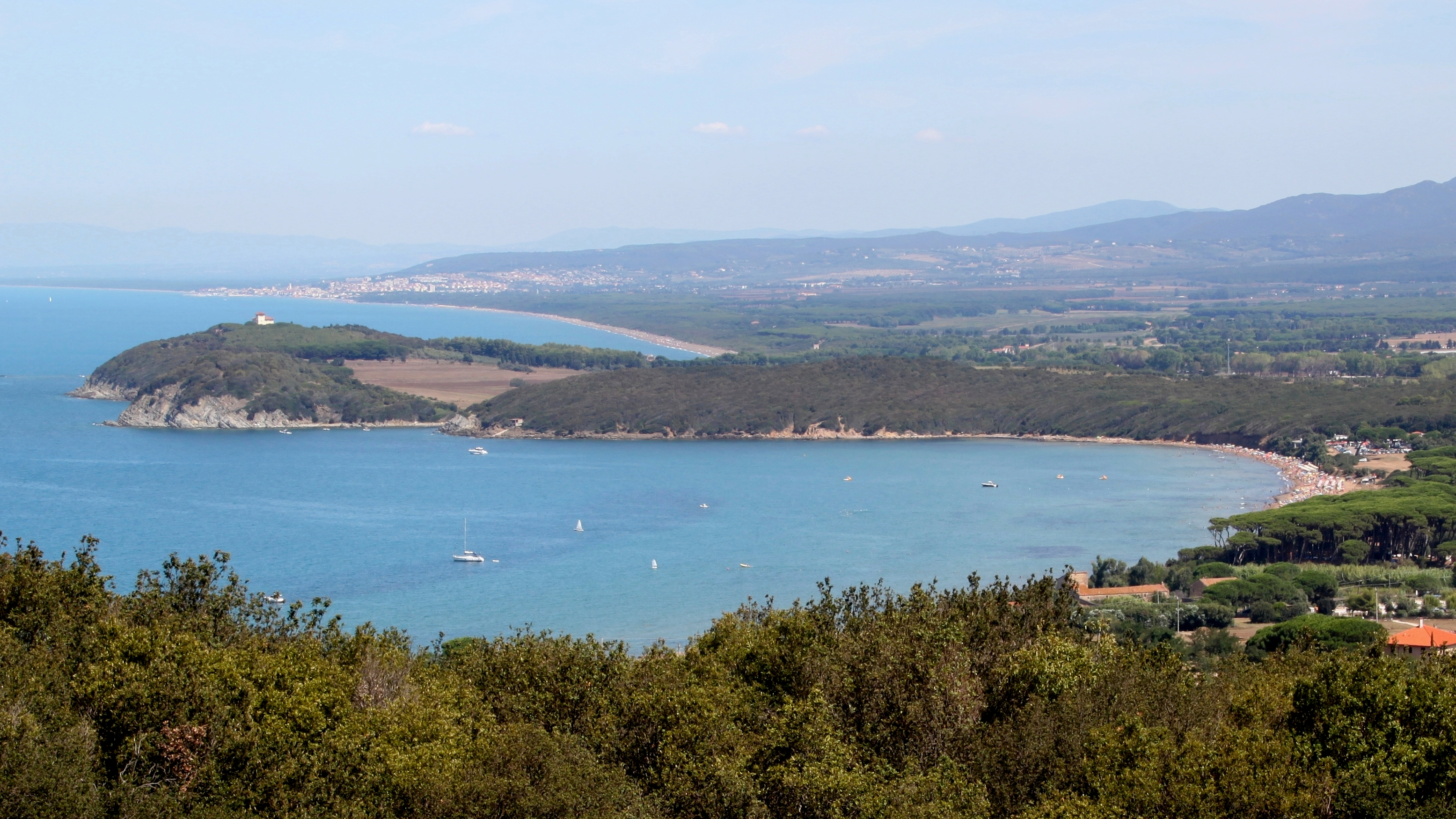 The Gulf of Baratti, as seen from the Archaeological Park (Necropolis site).